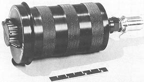 Urine receptacle assembly